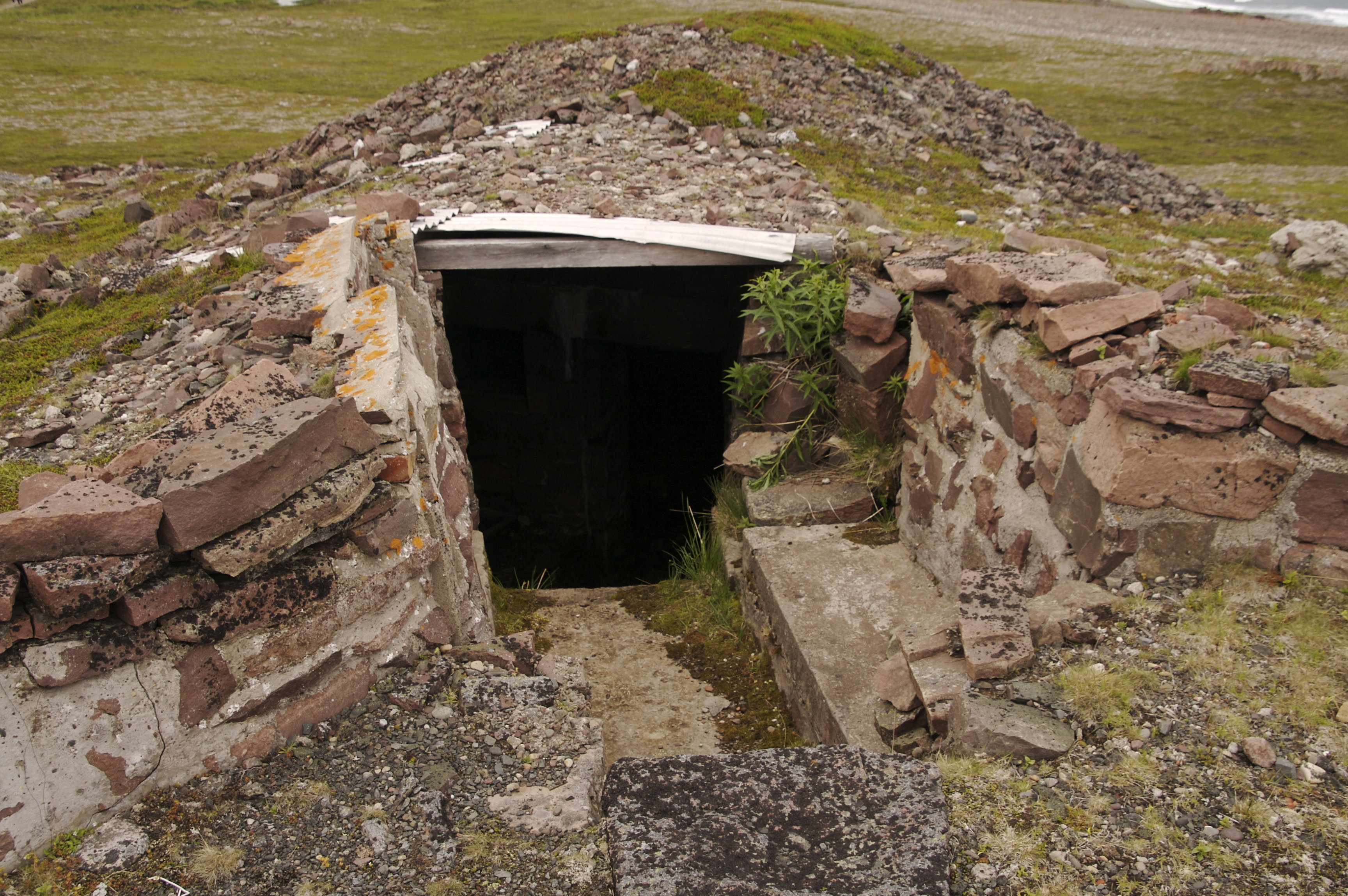 This was build by the Germans during WW2.